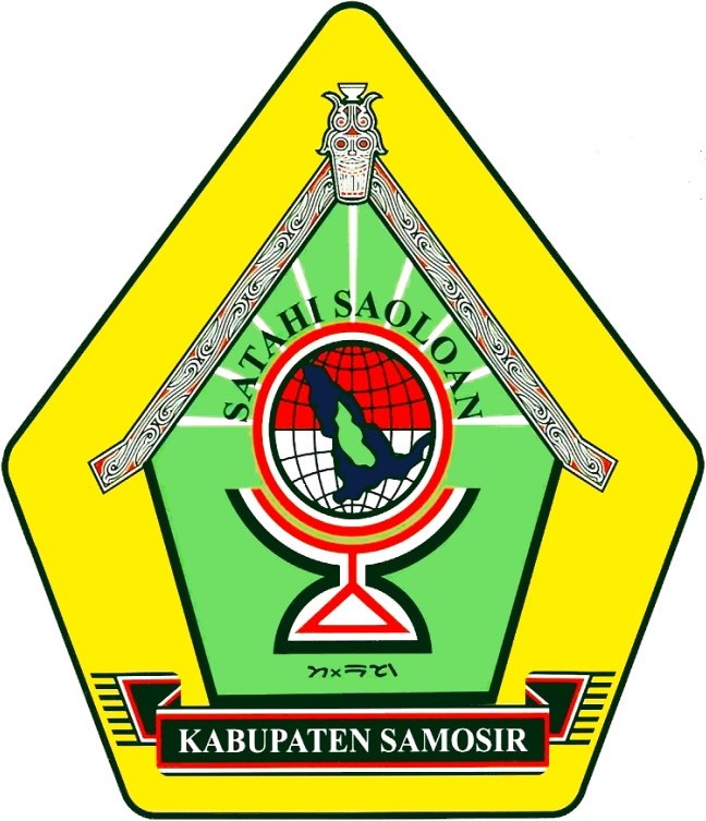 Coat of arms of Samosir Regency, North Sumatra